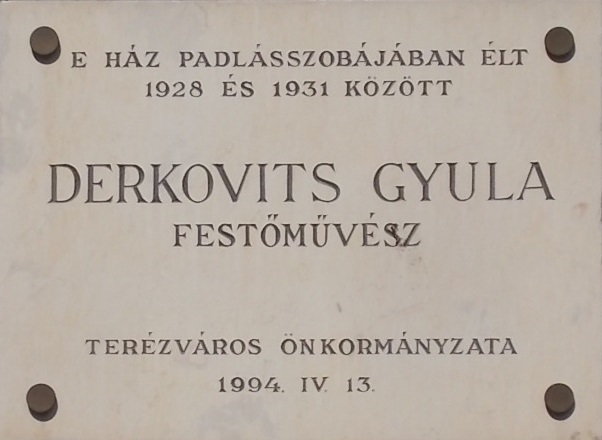 Hunyadi Courtyard A Léderer-Werner apartman building built in 1889 and partly 1891-1892. - 10 Hunyadi square, 6th district of Budapest.